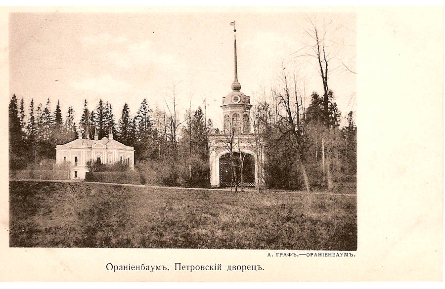 Oranienbaum. Petershtadt